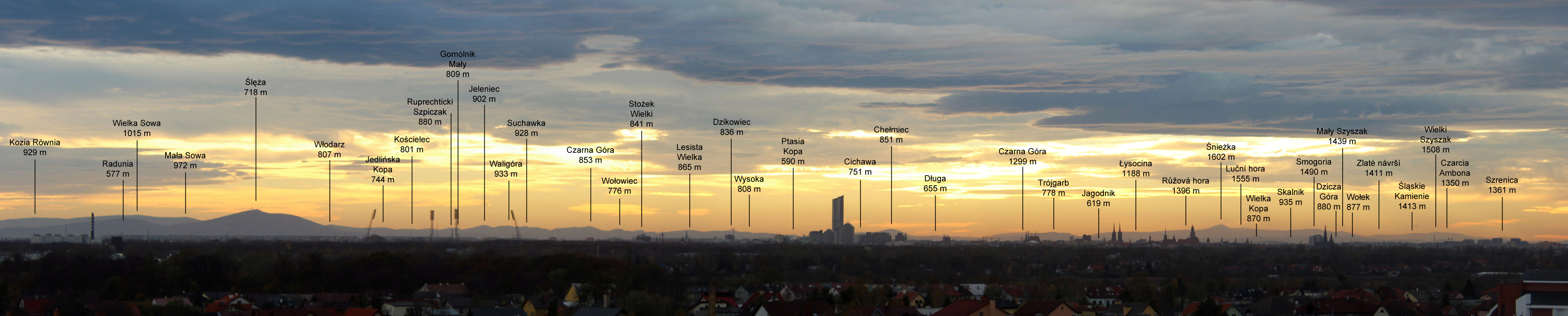 Wrocław - a panorama of the city and the peaks on its background; Ślęża, Sudety, Karkonosze